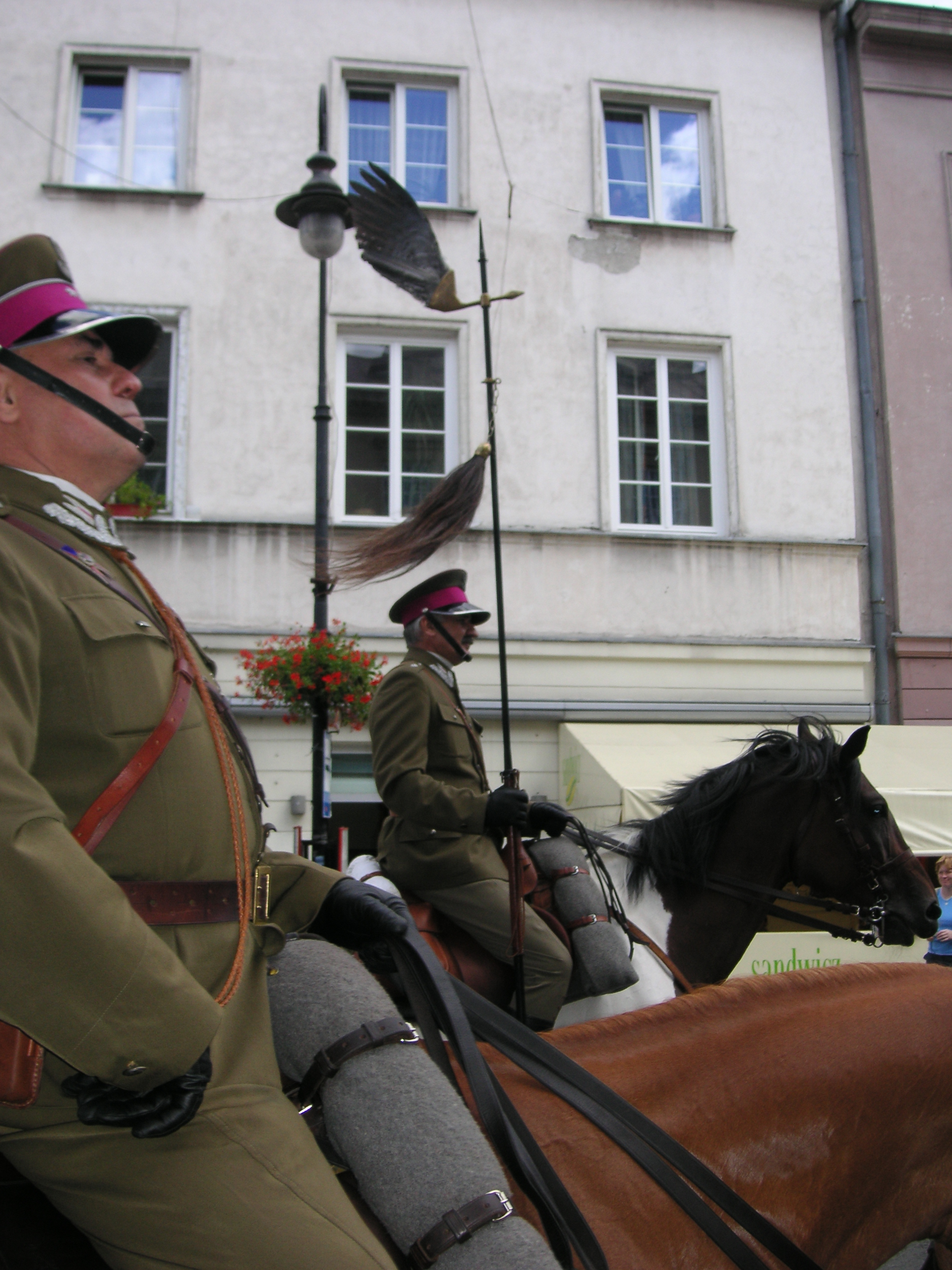 A military parade in Warsaw's Royal Road (Nowy Świat Street), commemorating the Feast of the Polish Army (August 15th) A buńczuk, historical insignia used instead of a pennon by Tartar cavalry forces serving the Commonwealth